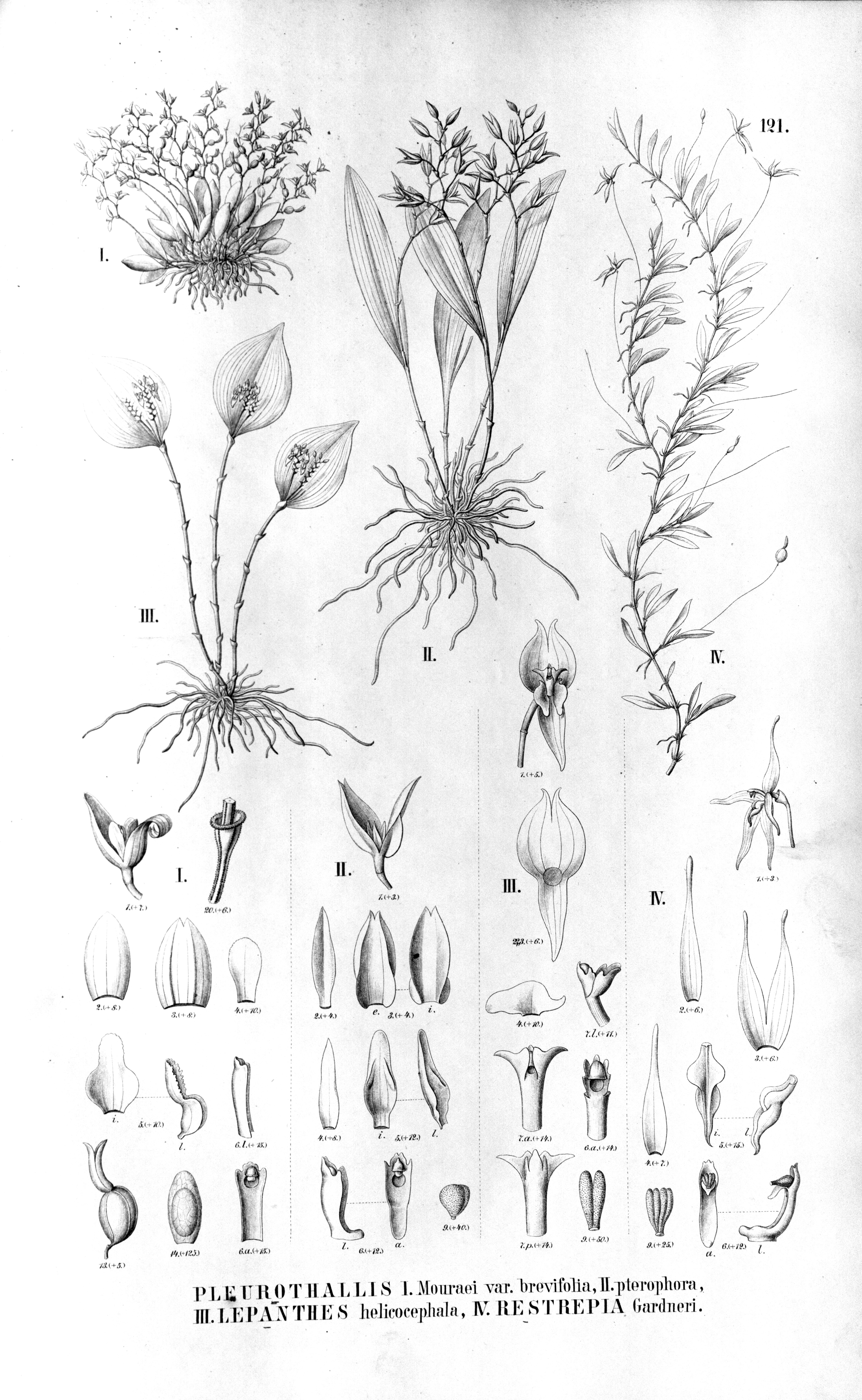 Illustration of: I Pleurothallis quadridentata (as syn. Pleurothallis mouraei var. brevifolia) II Pleurothallis pterophora III Lepanthes helicocephala IV Barbosella gardneri (as syn. Restrepia gardneri)